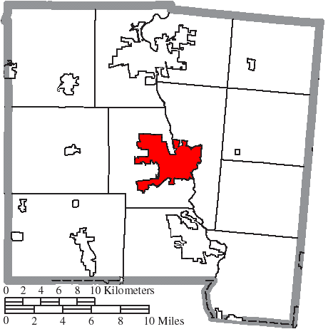 Map of the municipal and township boundaries of Miami County, Ohio, United States, as of the 2000 census, with the location of the city of Troy highlighted. Township borders are shown only in unincorporated areas in order to differentiate incorporated and unincorporated areas more clearly.